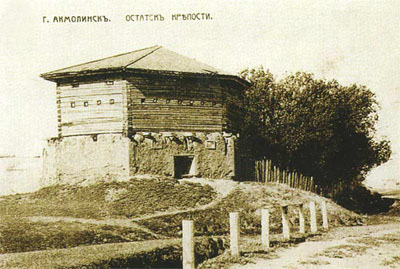 The rest of the fortress in Akmolinsk, 1911.